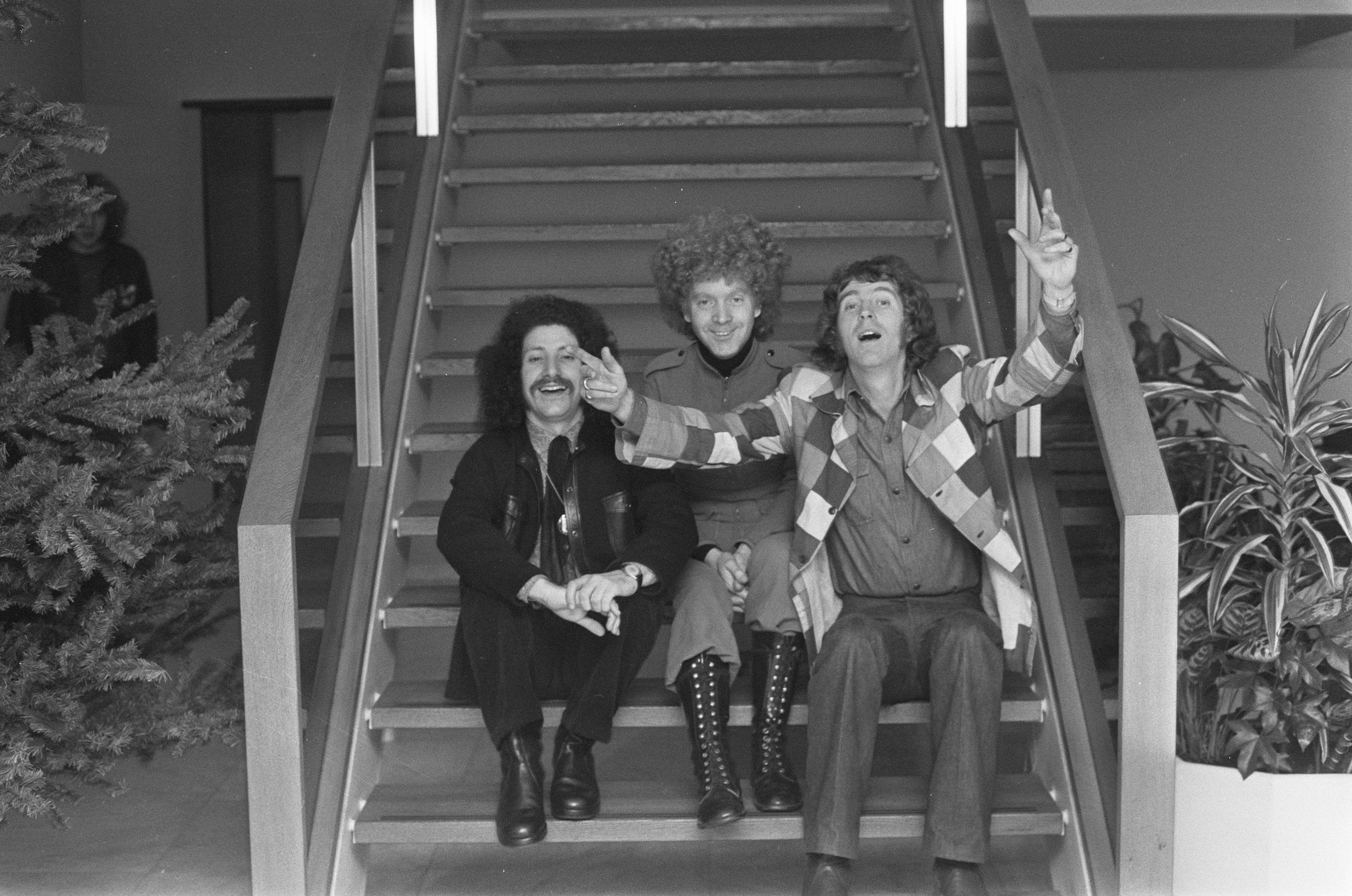 Musicians of Magna Carta arrive at Schiphol Airport to perform at a Unicef gala in the Netherlands (13 December 1972)